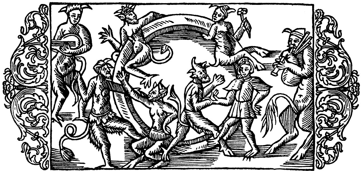 Six creatures, their appearance probably inspired by the look of fauns etc. in other cultures, dance around a circle. One creature is playing a string instrument and another bag pipe.